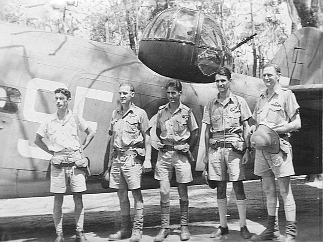 AWM caption : Hughes, NT. February 1943. Members of No. 13 (Hudson) Squadron RAAF stand beside their aircraft. Identified personnel are: Pilot Officer (PO) L. Evans PO R. McPherson Sergeant (Sgt) D. Hoare Sgt P. Munro Sgt C. Layt